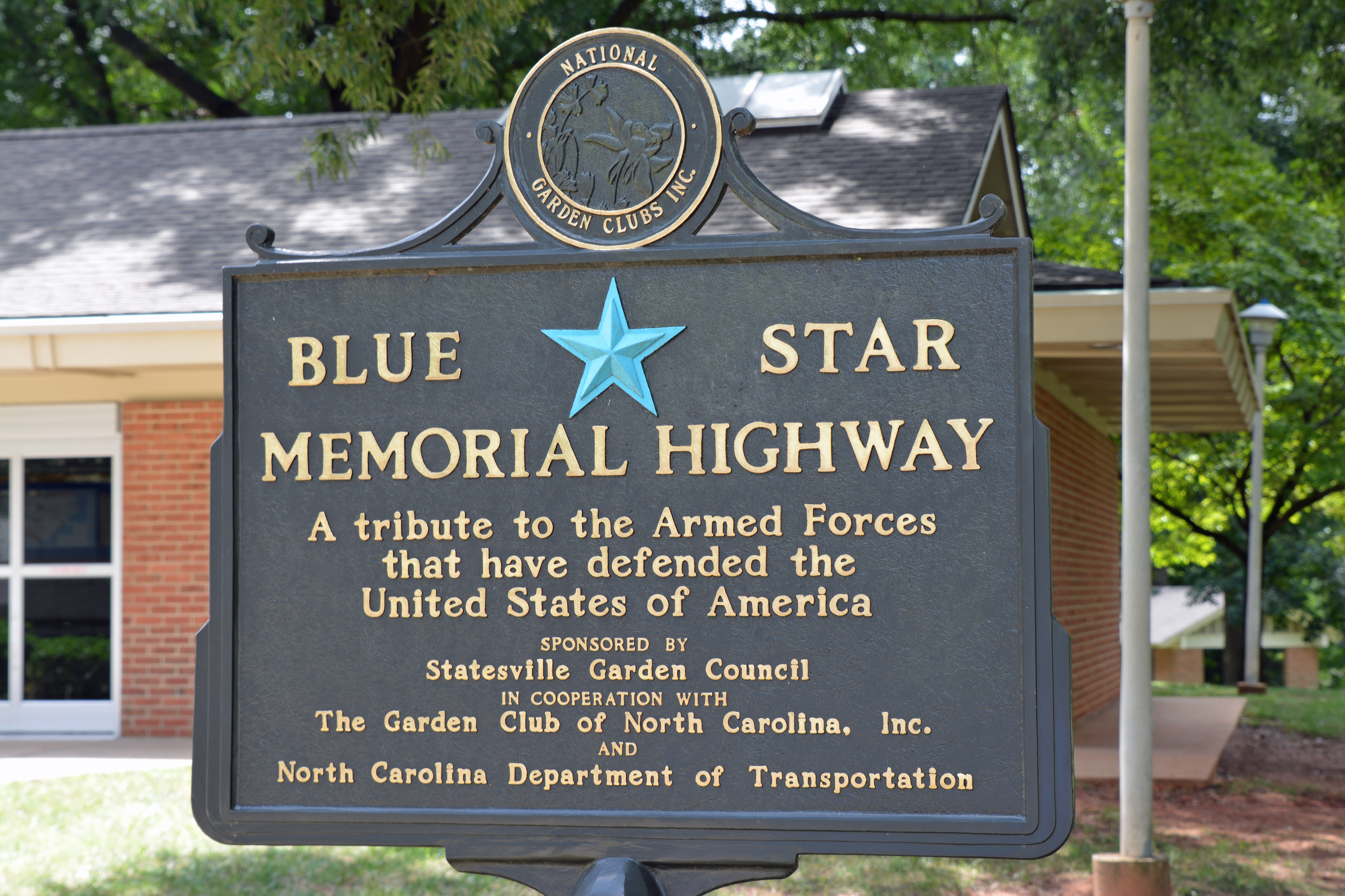 Blue Star Memorial Highway marker, on I-77 near Statesville, North Carolina, U.S.